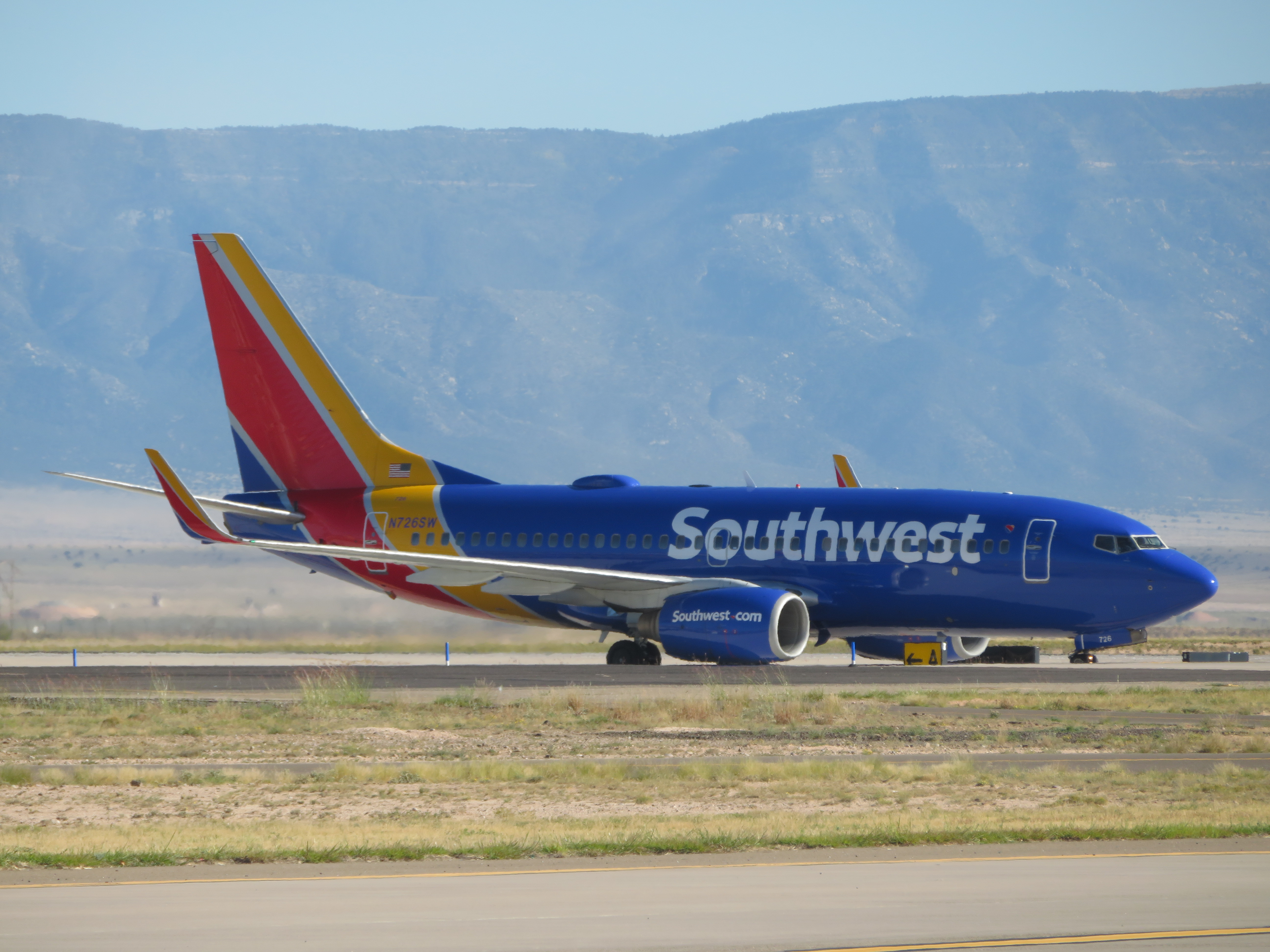 N726SW, a Southwest Boeing 737-7H4 taxis at the Albuquerque International Sunport.